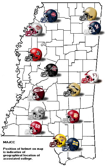 Map showing geographical location of teams in the MAJCC